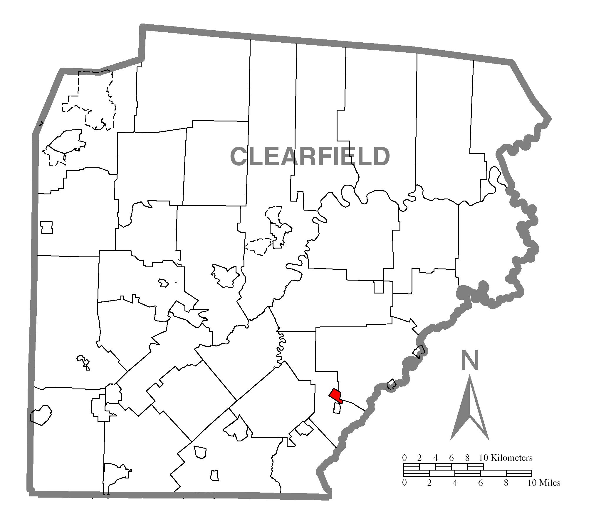 A map of Clearfield County showing Brisbin, Pennsylvania (alternate) highlighted on the map.